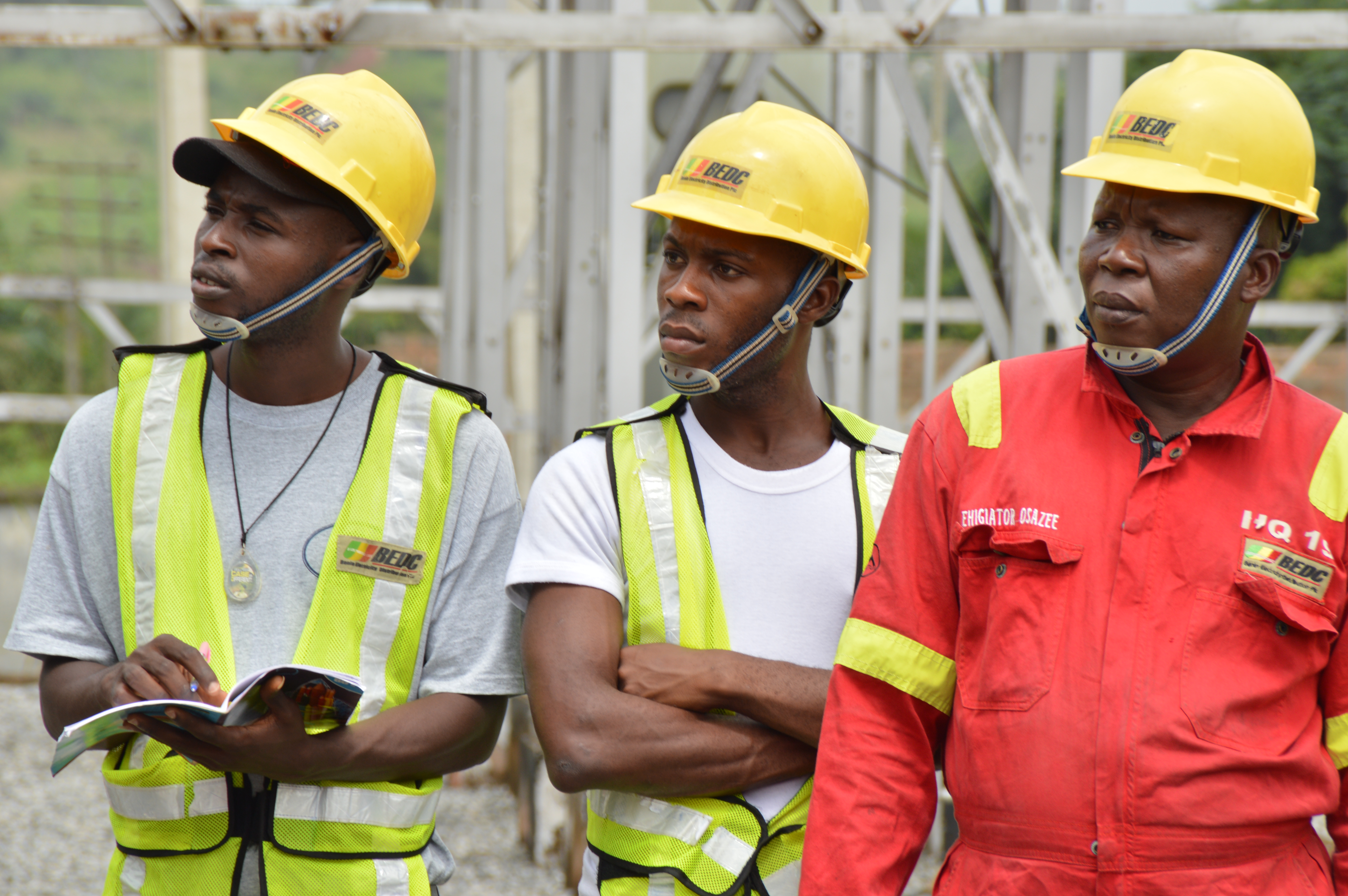 This is an image of "African people at work" from Nigeria